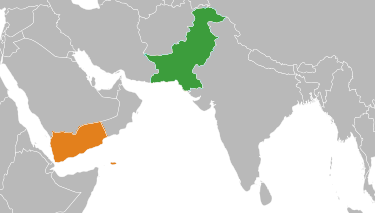 Yemen - Pakistan locator map